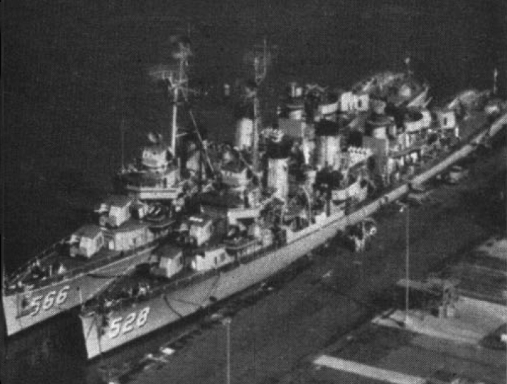 The U.S. Navy destroyers USS Mullany (DD-528) and USS Stoddard (DD-566) tied up at Pearl Harbor, Hawaii (USA), circa 1960.